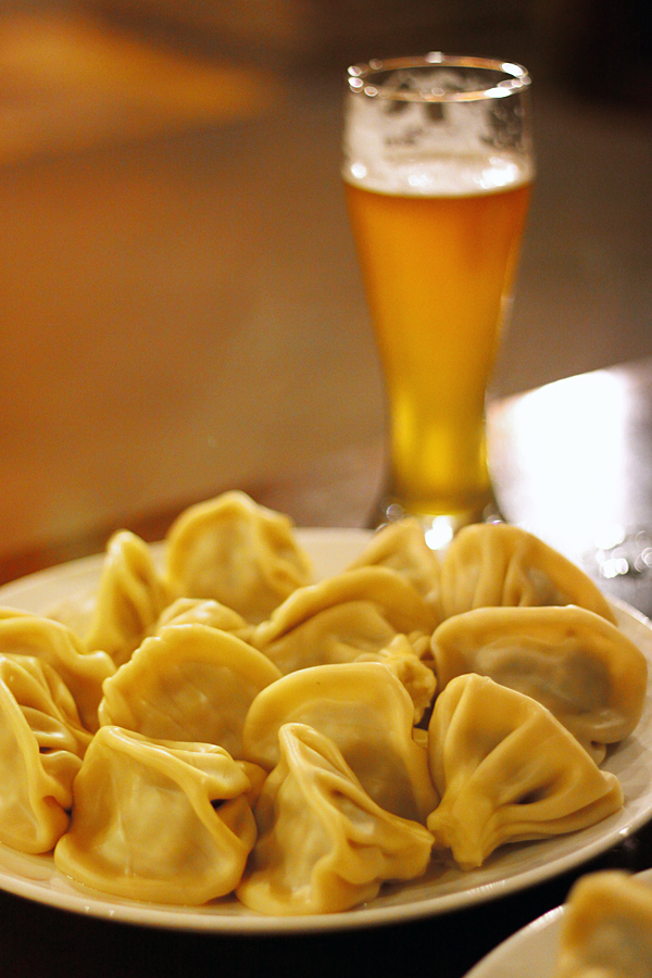 Khinkali with beer